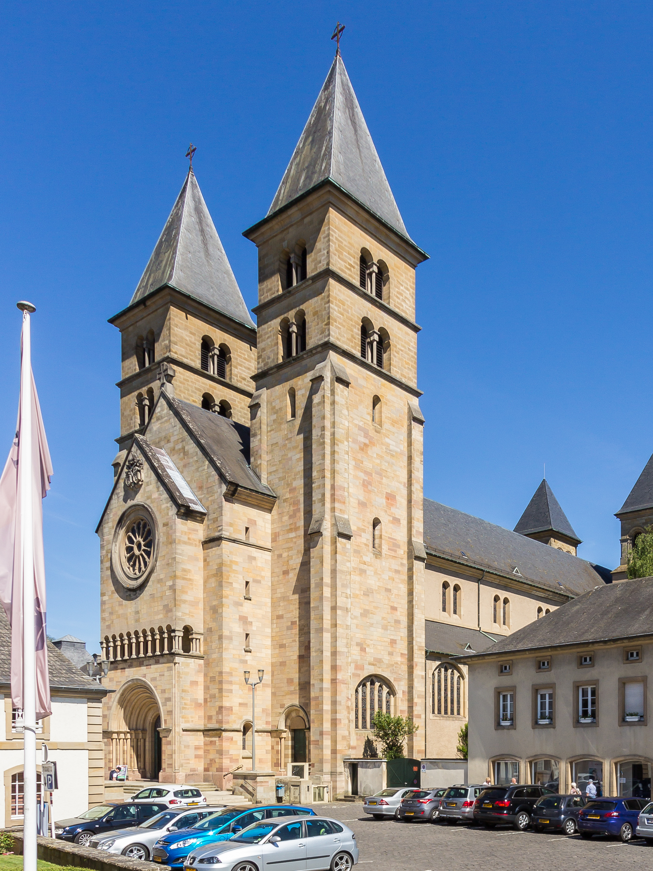 St. Willibrord Basilika, Echternach